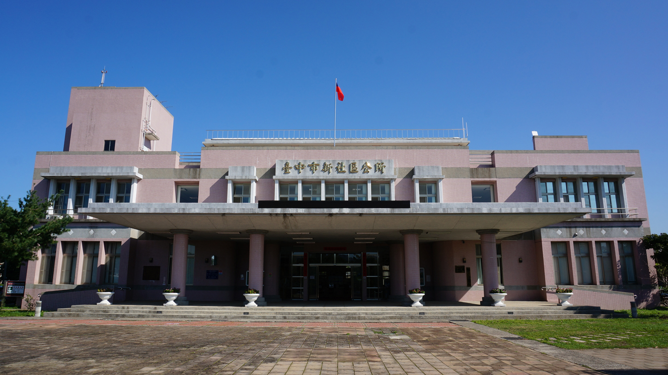 Xinshe District Office中文（台灣）: 新社區公所